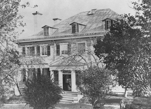 Photograph of "Piedmont", John Frothingham house, Montreal, Quebec, Canada about 1880